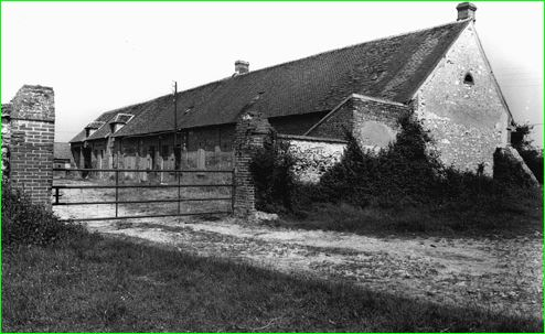 Dammarie-sur-Loing, Loiret, Centre region, France At the Copeaux hamlet, old house listed as historical buildings.